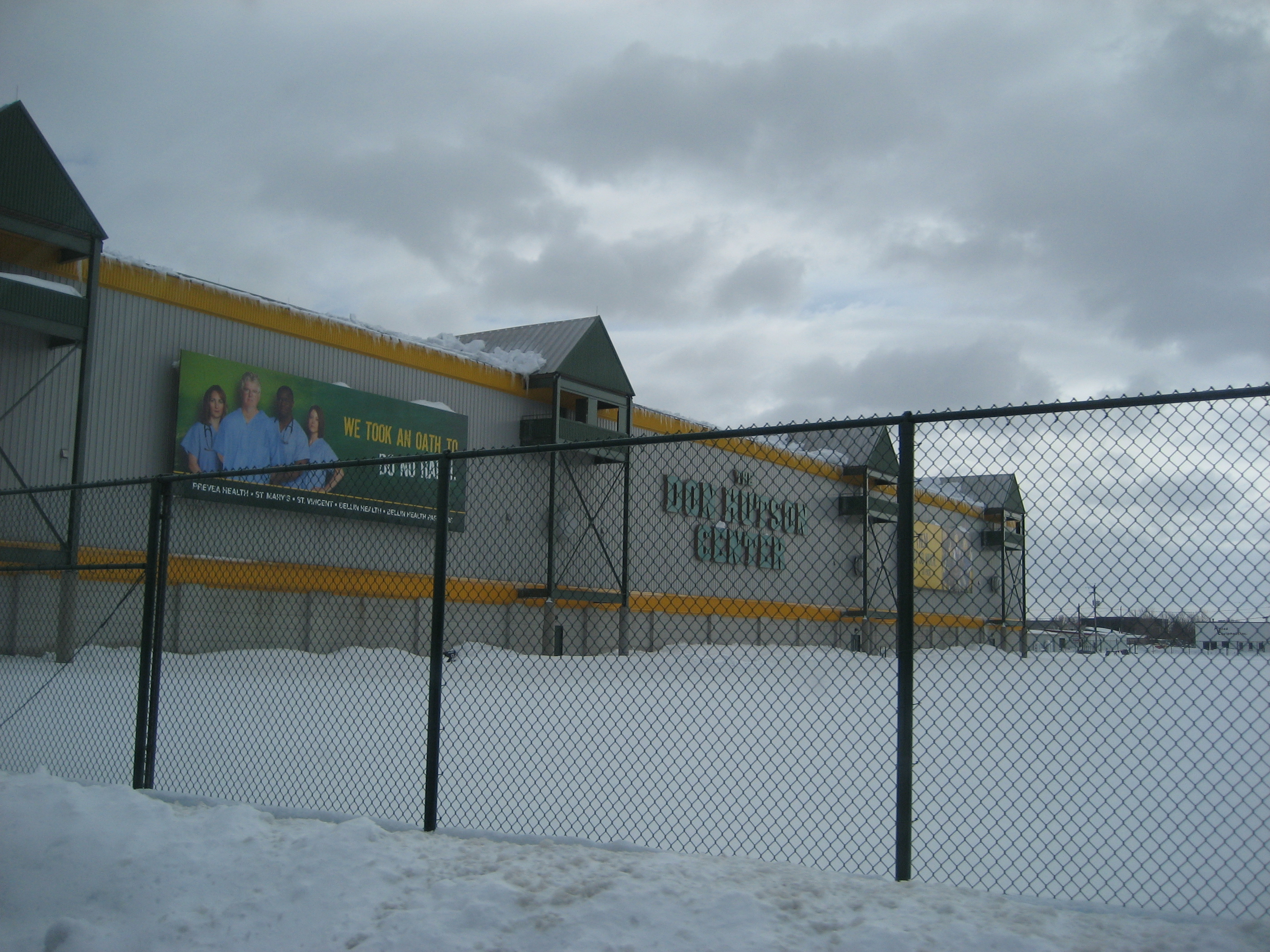 The Don Hutson Center in winter-time. The Practice field in front is covered due to snow.